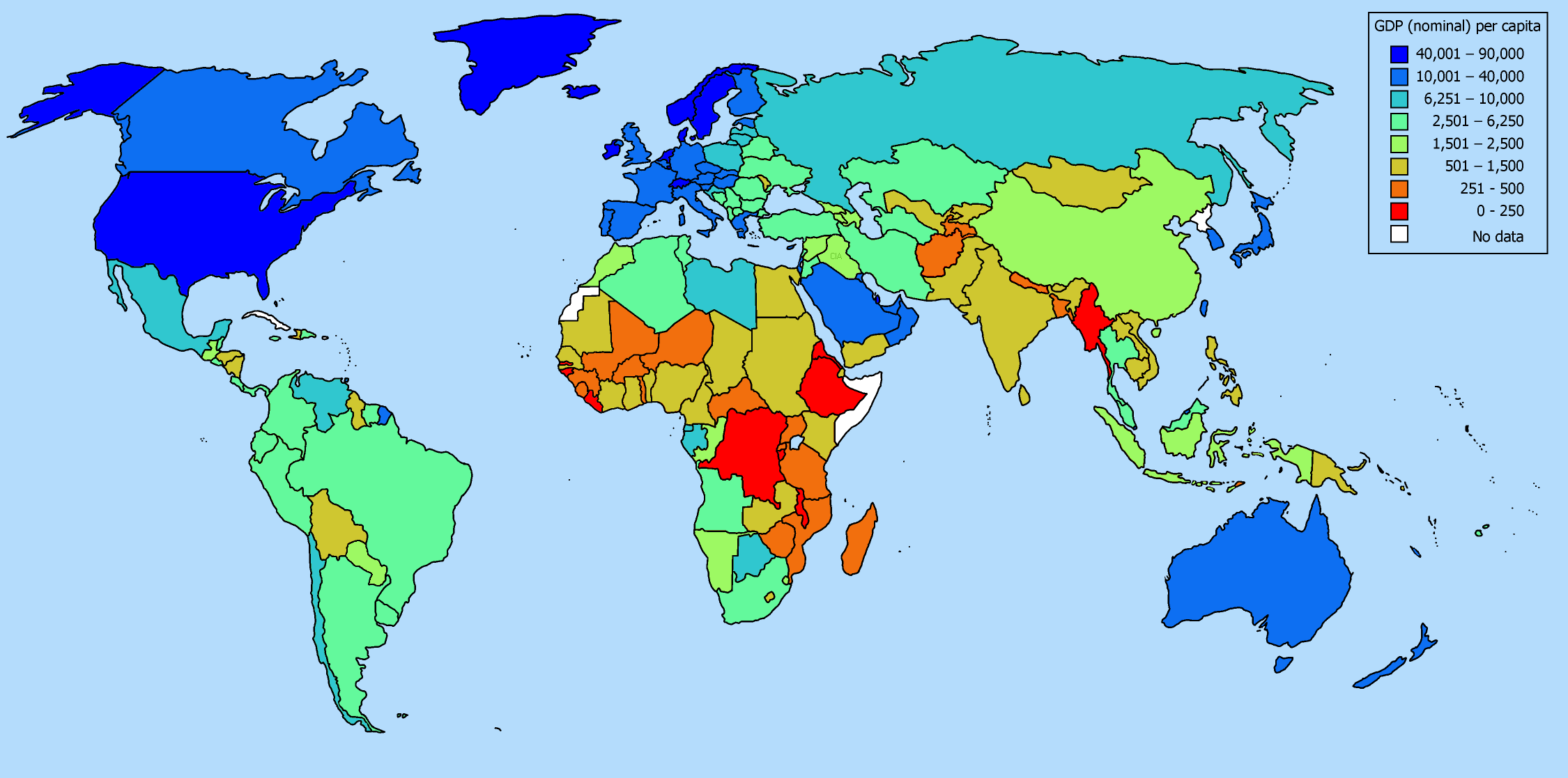 GDP (nominal) per capita. Using wikipedia's world map and information from IMF and wikipedia's article List of countries by GDP (nominal) per capita